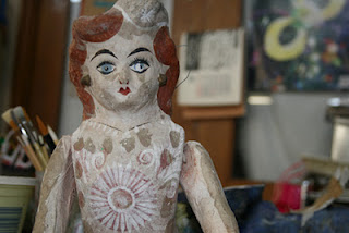 Cartonería doll from the collection of Kazuko Asaba on display with the Miss Lupita project in Japan